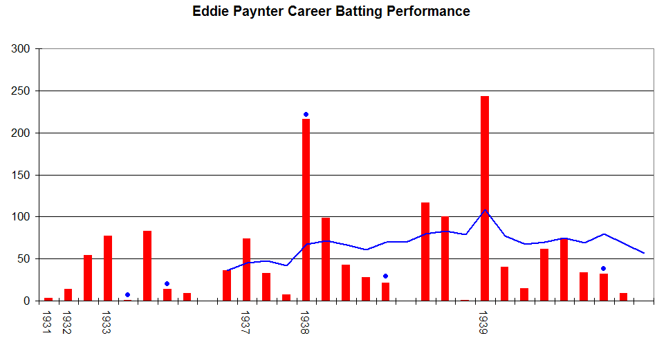 This graph details the Test Match performance of Eddie Paynter. It was created by Raven4x4x. The red bars indicate the player's test match innings, while the blue line shows the average of the ten most recent innings at that point. Note that this average cannot be calculated for the first nine innings. The blue dots indicate innings in which Eddie Paynter finished not-out. This graph was generated with Microsoft Excel 2002, using data from Cricinfo and .au.